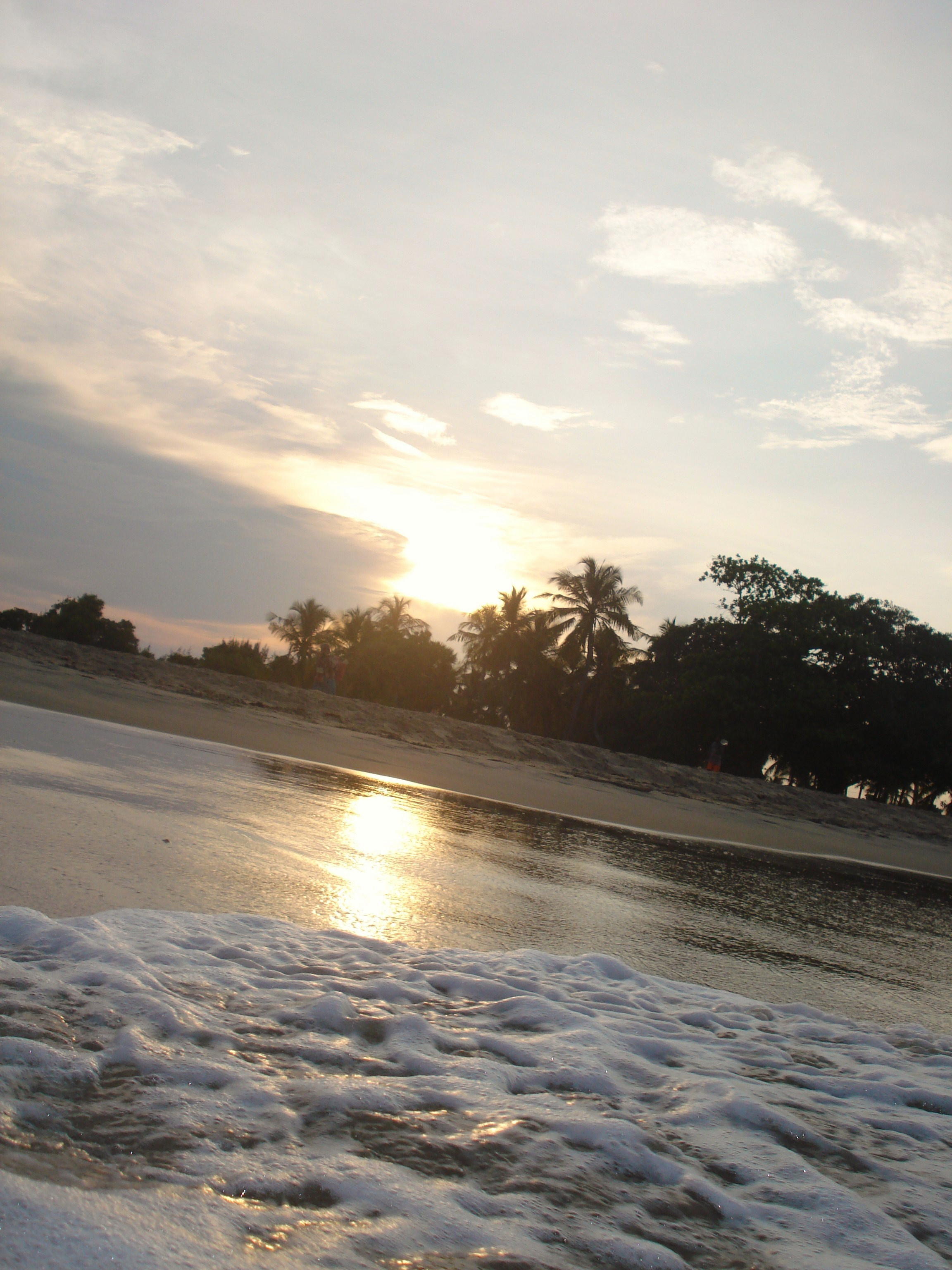 Kalladi beach on an evening.